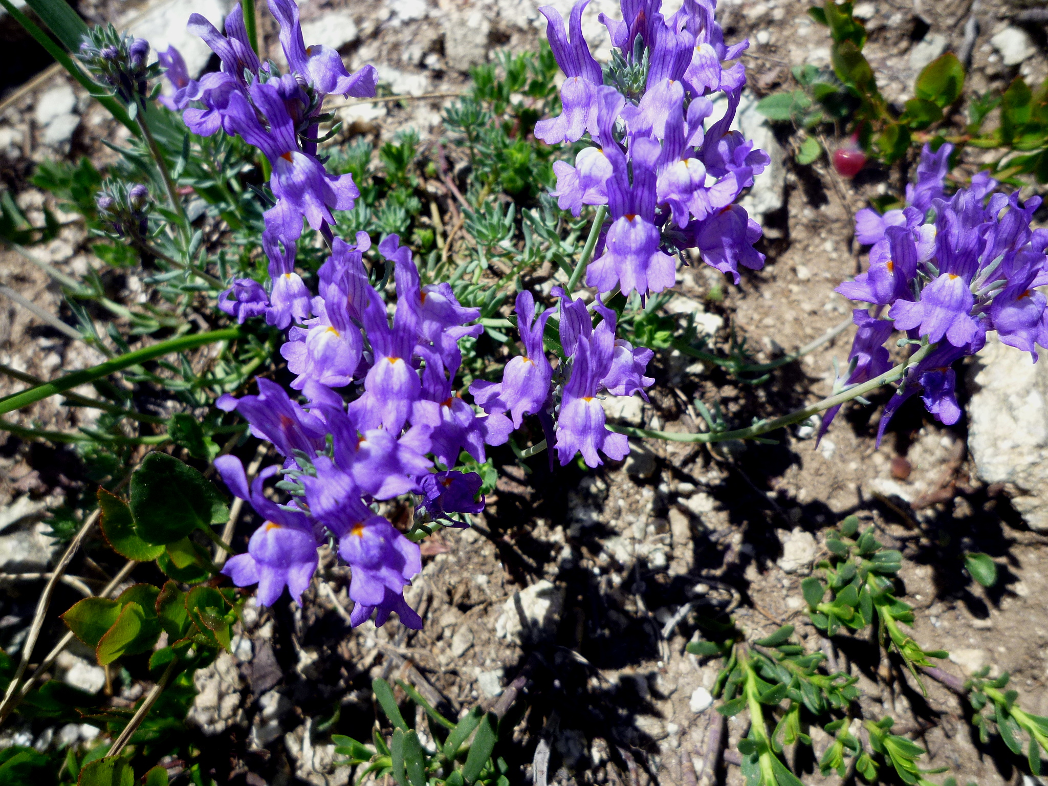 Linaria alpina. In Cabdella (Pallars Jussà - Catalunya. To 2.250 m altitude